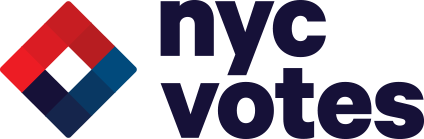 This is a logo for NYC Votes.